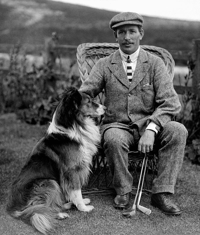 British golfer Jack White with his dog in 1904